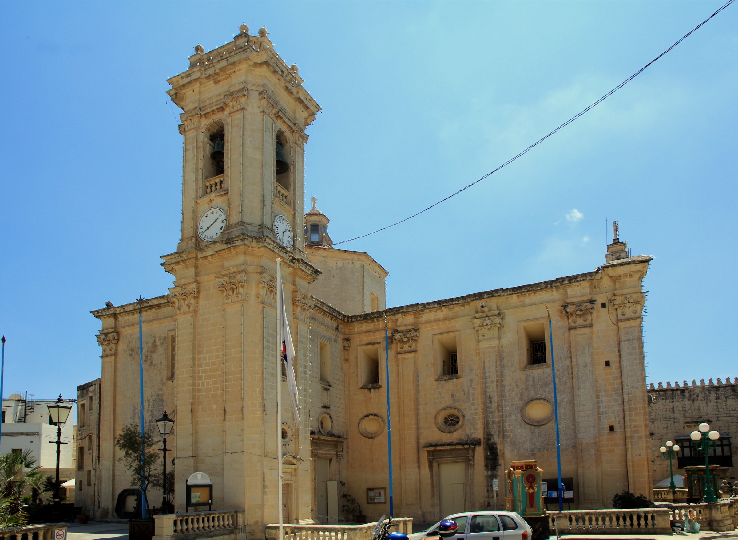 Parish Church of town Attard, Malta